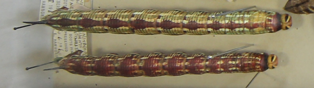 Photo of a A pair of inflated caterpillars